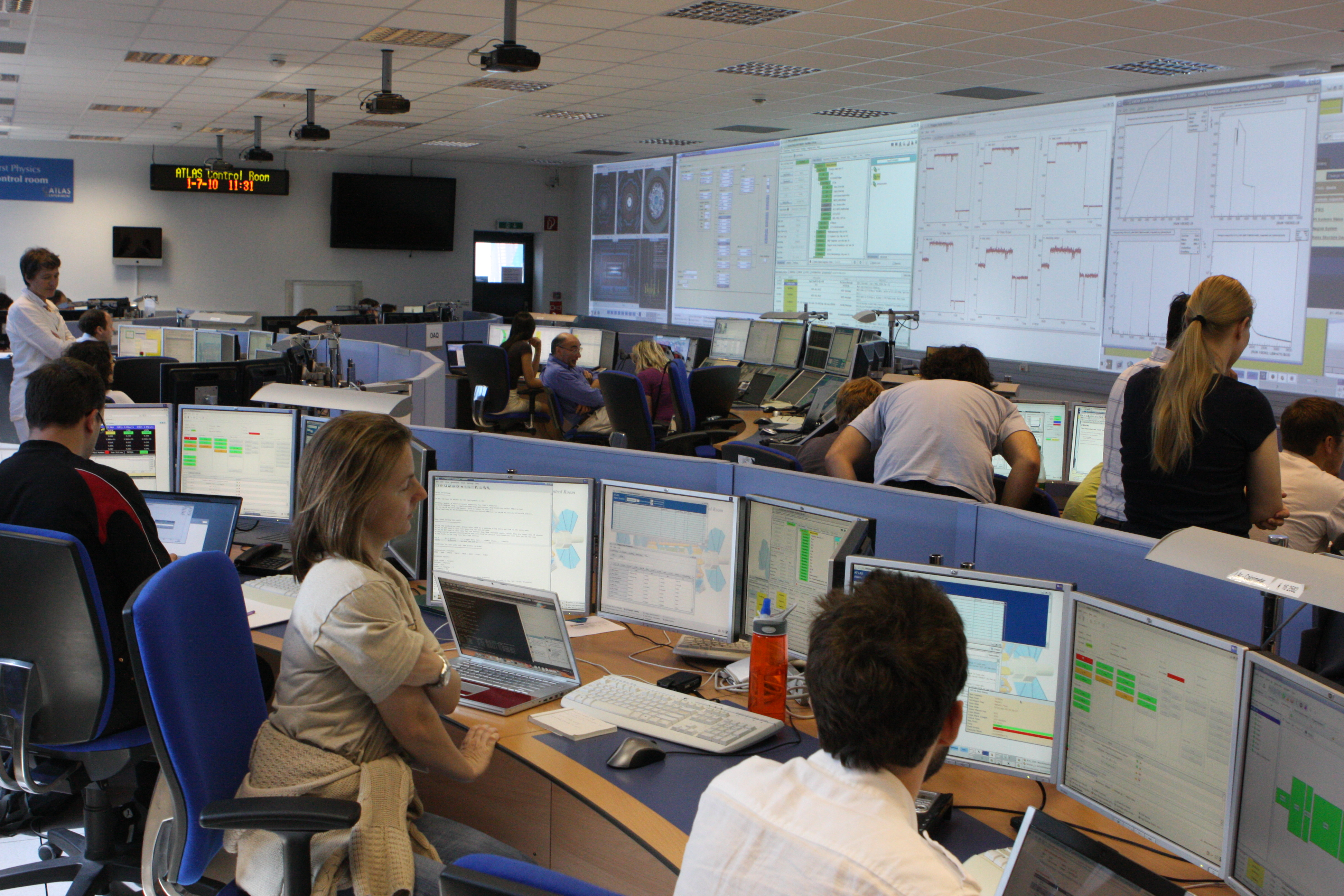 CERN Atlas Control Room